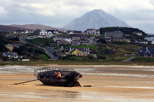 A view of Bunbeg with Mount Errigal in the background and the wrecked Cara Na Mara (Friend of the Sea) on the tidal sandbanks of Magheraclogher beach. 'Bád Eddie' (Eddie's Boat) ran ashore due to rough seas in the early 1970s.